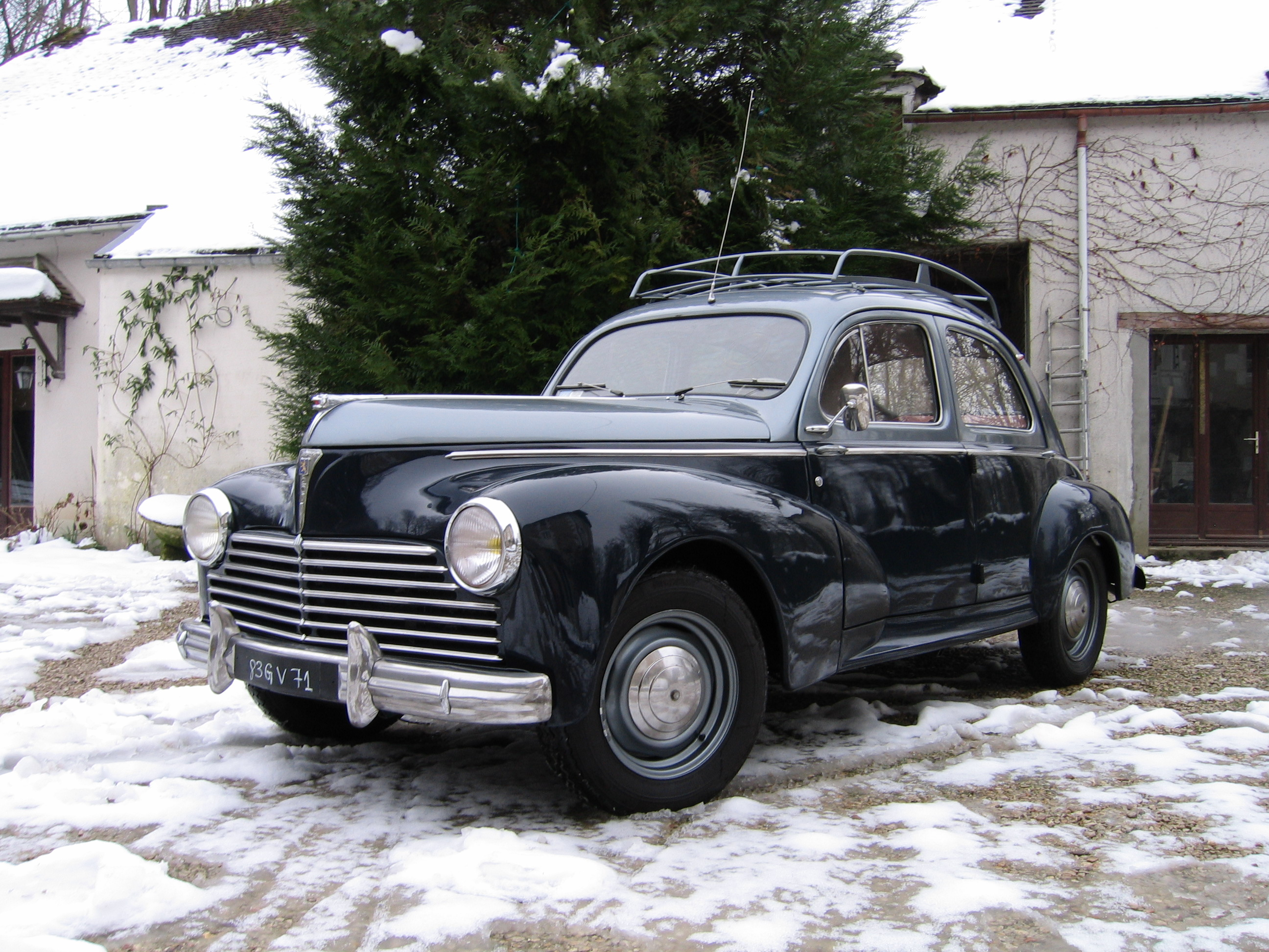 Belongs to user.